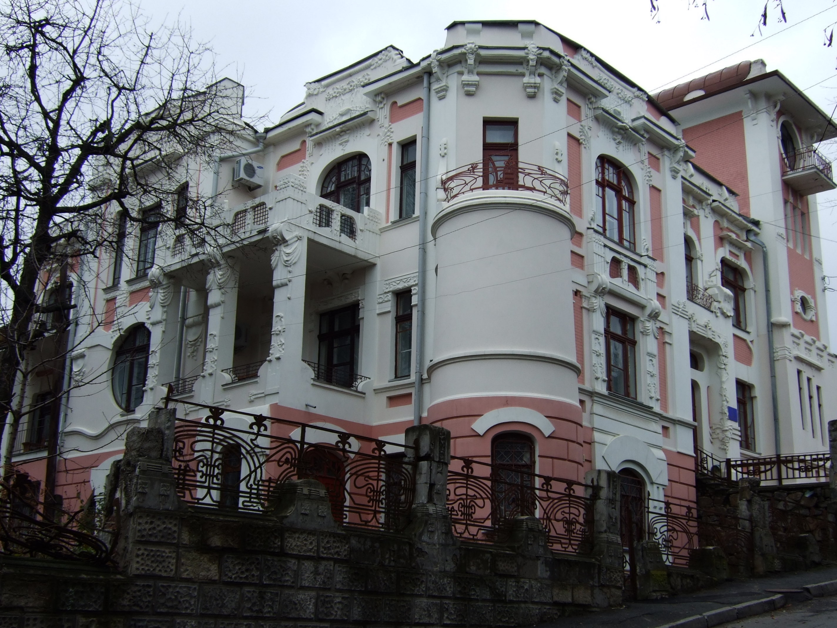 Vinnytsya, Pushkin Street № 38. Built by architect V.P.Listovichiy. The house was built in the modernist style. Captain Chetkov ordered the project of the house to the Kyiv architect V. Listovnichiy, the teacher of Kyiv Institute of Civil Engineers. In 20 cen. maternity hospital and children’s hospital was in this house and now the government of town-planning and architecture of Vinnytsa borough council is located here.